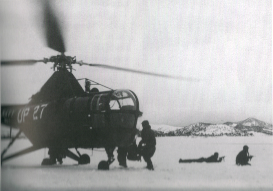 A United States Navy Sikorsky HO3S-1 helicopter in action during the Korean War.